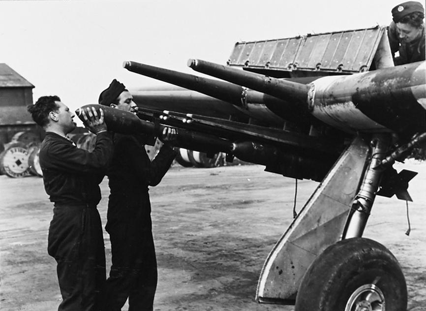 3 in, 60 pdr SAP, Rocket Projectiles being loaded onto the launch rails of an RAF Hawker Typhoon, circa 1944. A pair of 20mm cannon barrels are visible above the launch rails.